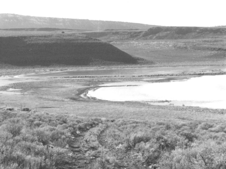 Looking southwest from slope of Hart Mountain toward the Stone Bridge (causeway) built in 1867 by the United States Army.